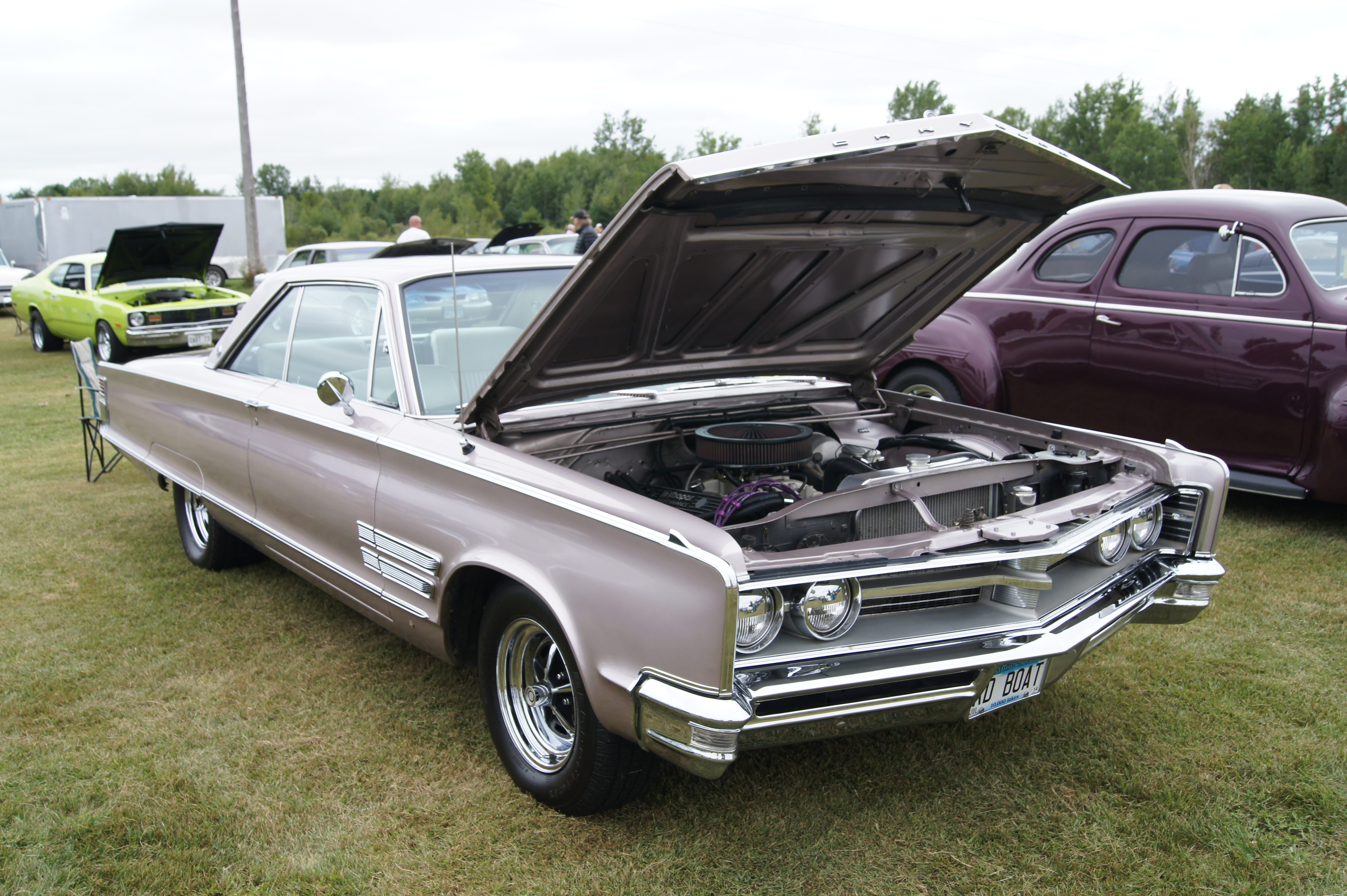 North Star Chapter Studebaker Drivers Club 13th Annual Labor Day Car Show September 2, 2013 Blacksmith Lounge Hugo, MN More Car Pictures